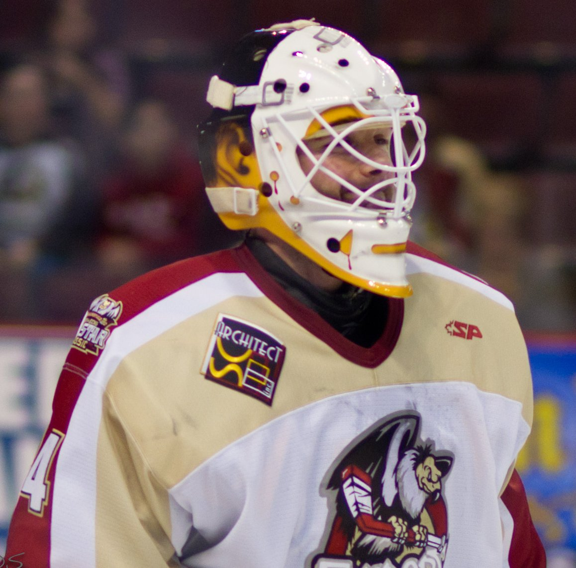 Peter Hirsch with the Bakersfield Condors in 2011 during a game vs. the Ontario Reign.